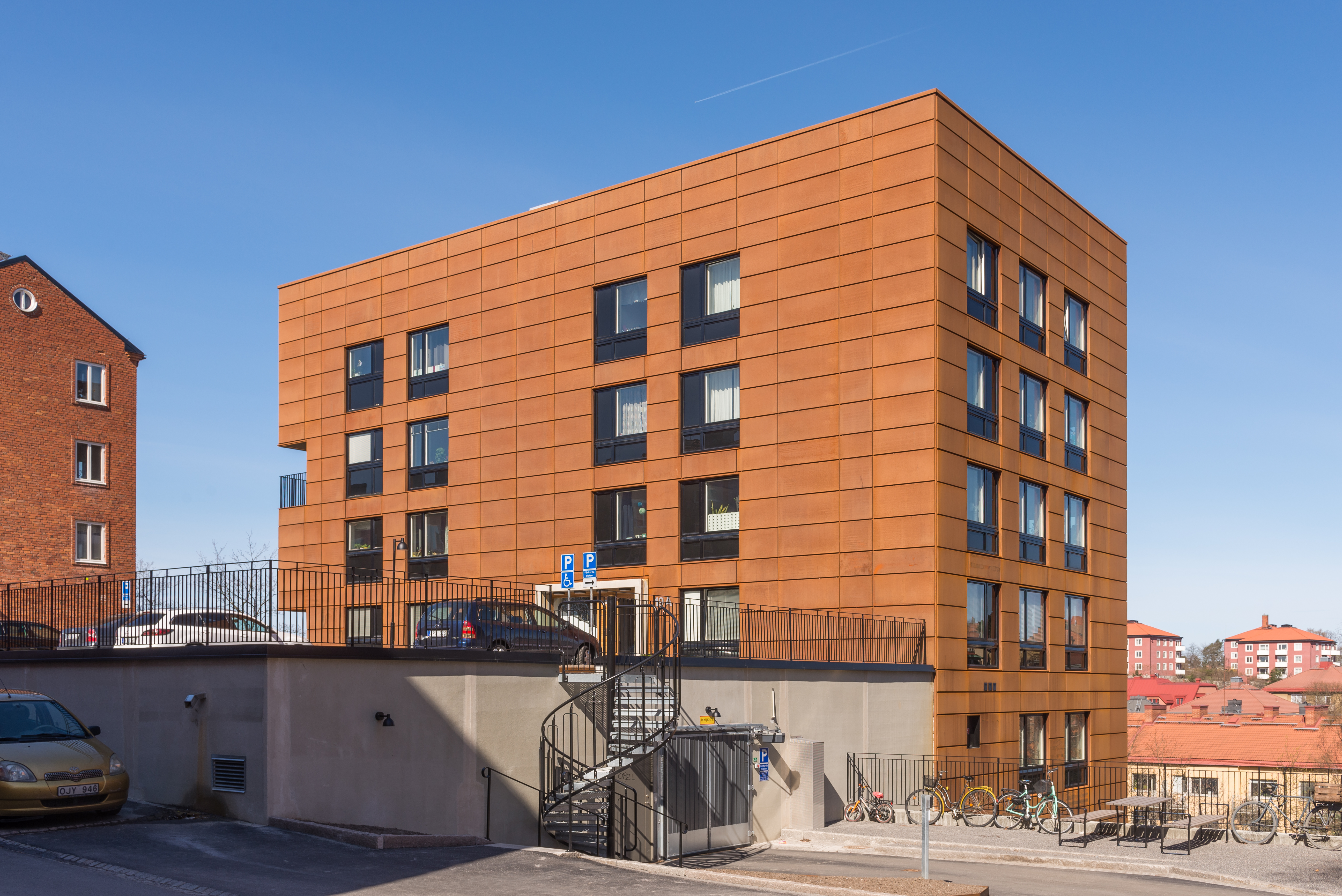 New residential building at Främlingsvägen, in Hägersten (Stockholm). Built 2013. Architects: Brunnberg & Forshed arkitektkontor.